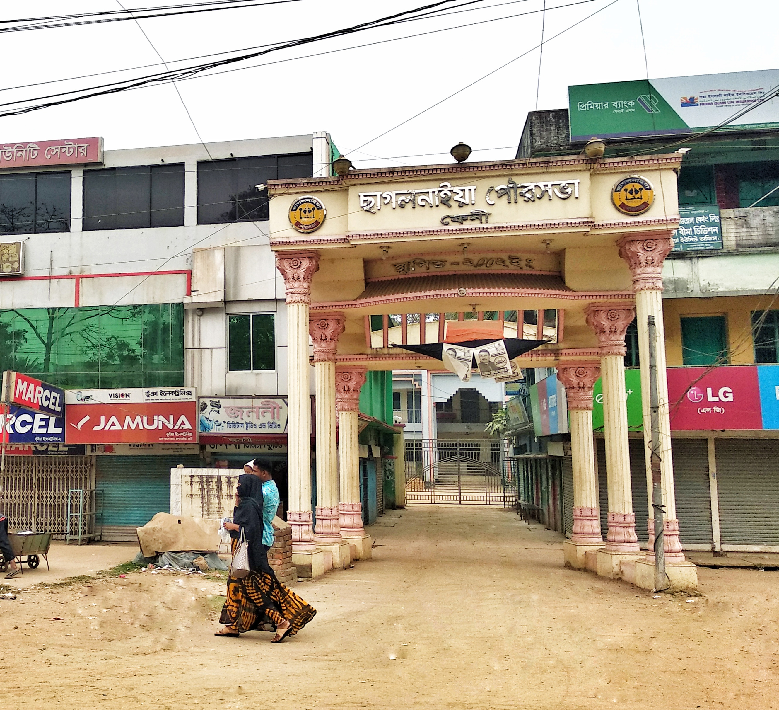 chhagalnaiya pourashava